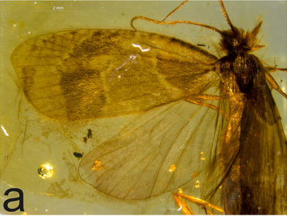 Moth in Baltic amber conspecific with Tortricidrosis inclusa Skalski, 1973. Collection of C. and H. W. Hoffeins (Hamburg), nr. 1649/3. a. Dorsal view. Length of forewing 7.8 mm.